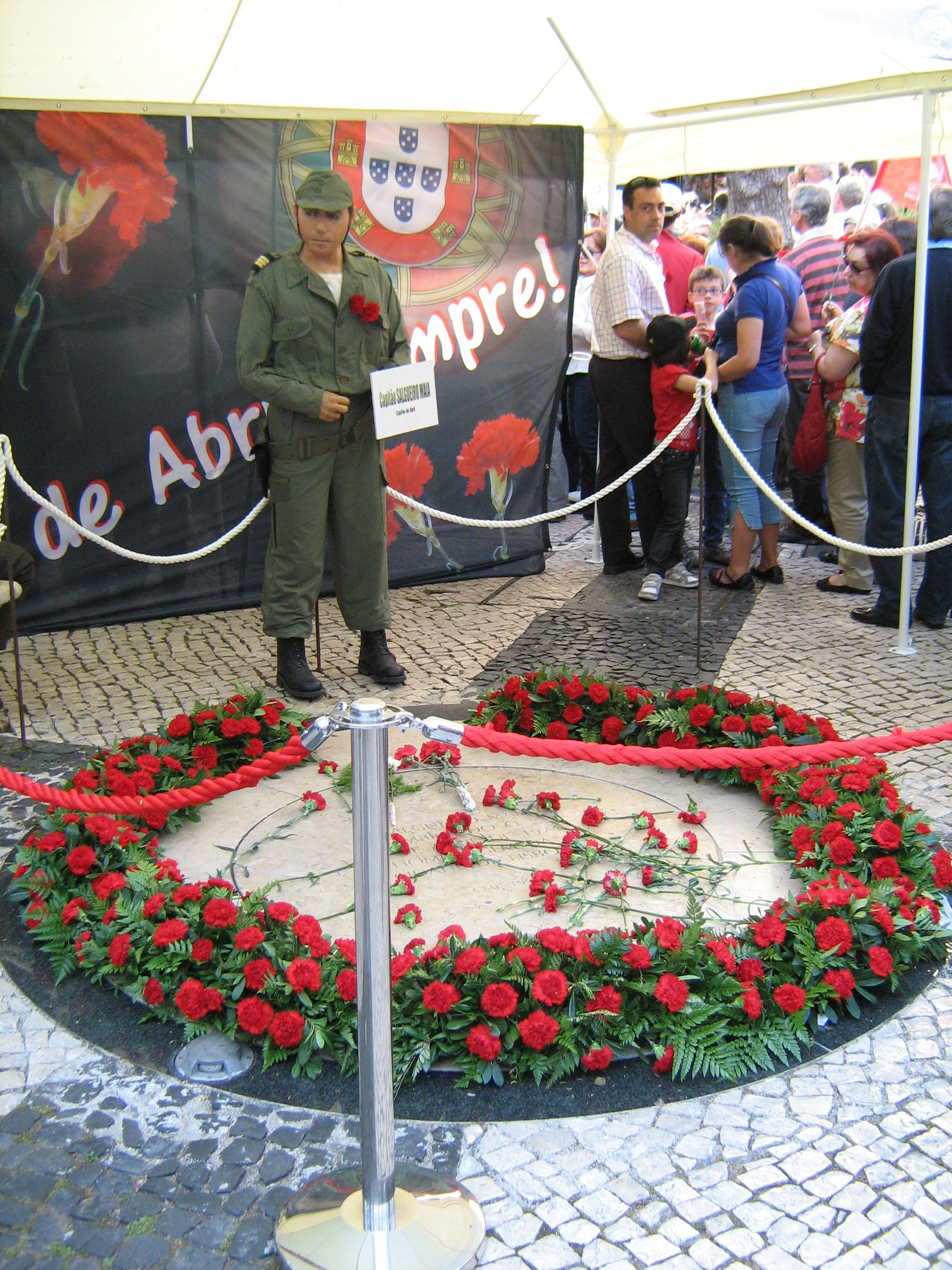 Largo do Carmo in Lisaboa, Portugal, on April 25, 2013, the 39'th anniversary of the Carnation Revolution, that took place on this square in 1974.